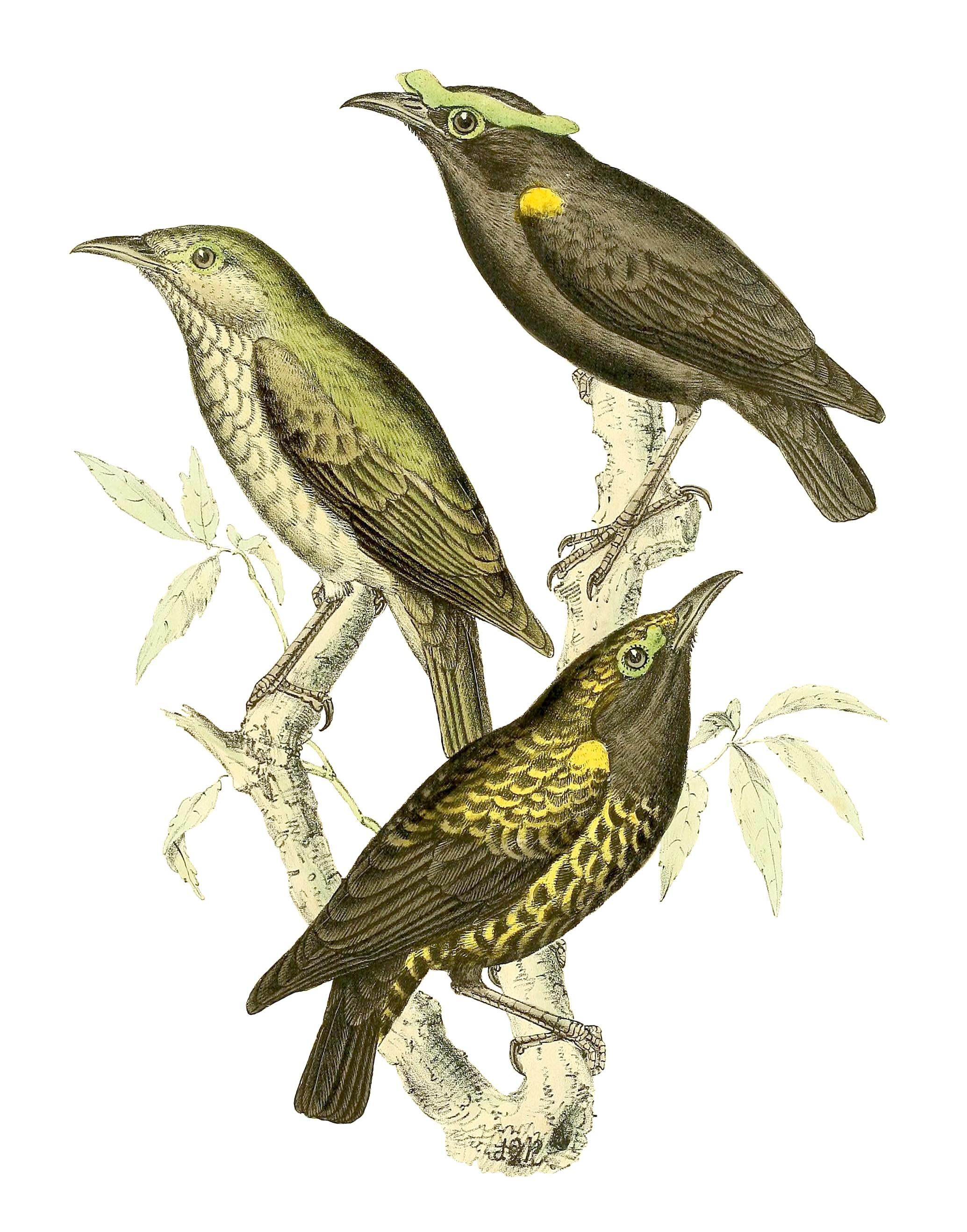 Philepitta jala = Philepitta castanea (Velvet Asity)